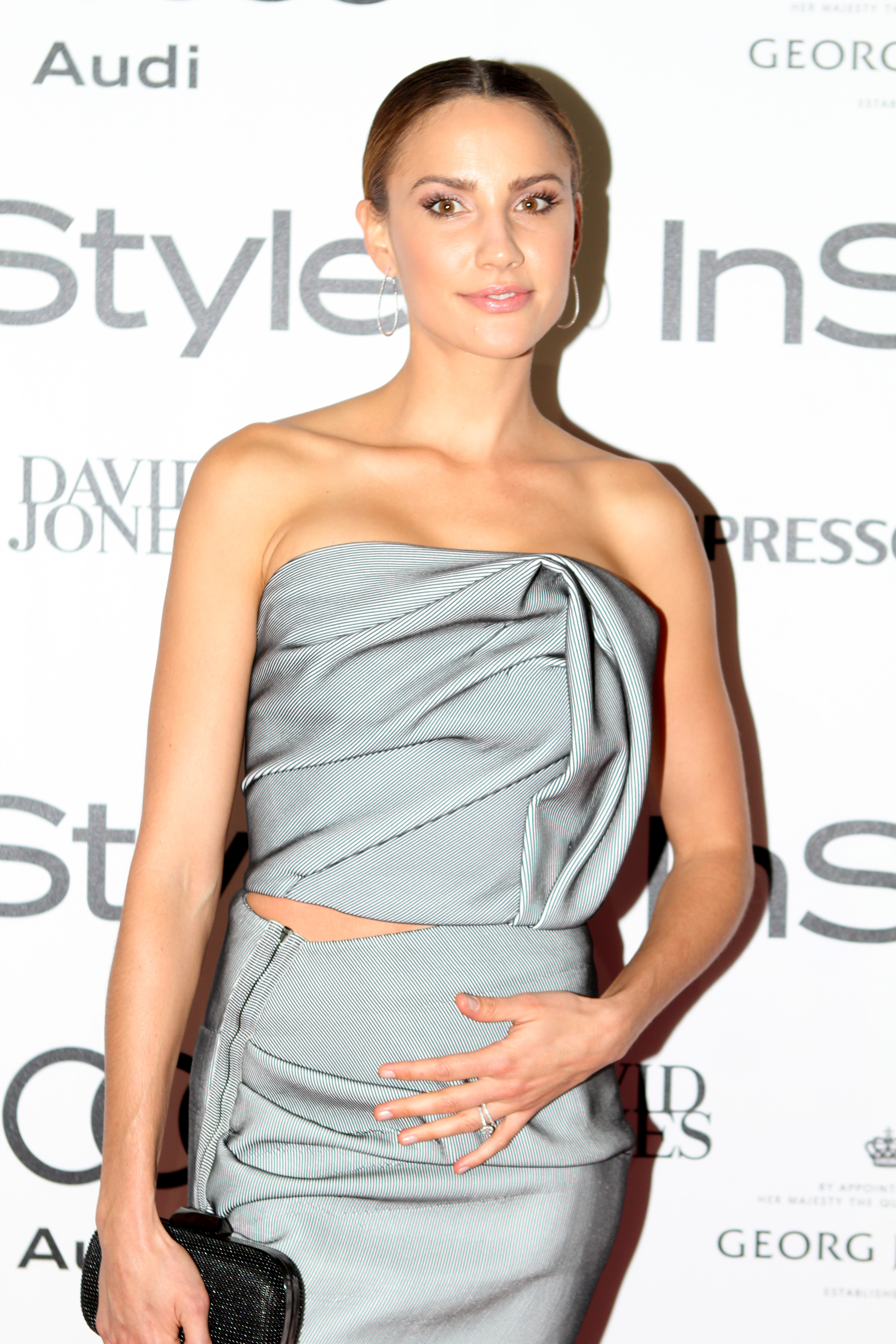 Instyle Awards 2015 InStyle and Audi Host Seventh Annual Woman Of Style Awards Red Carpet Gala Event